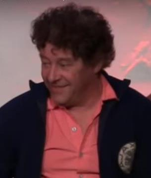 David Endt (2015)